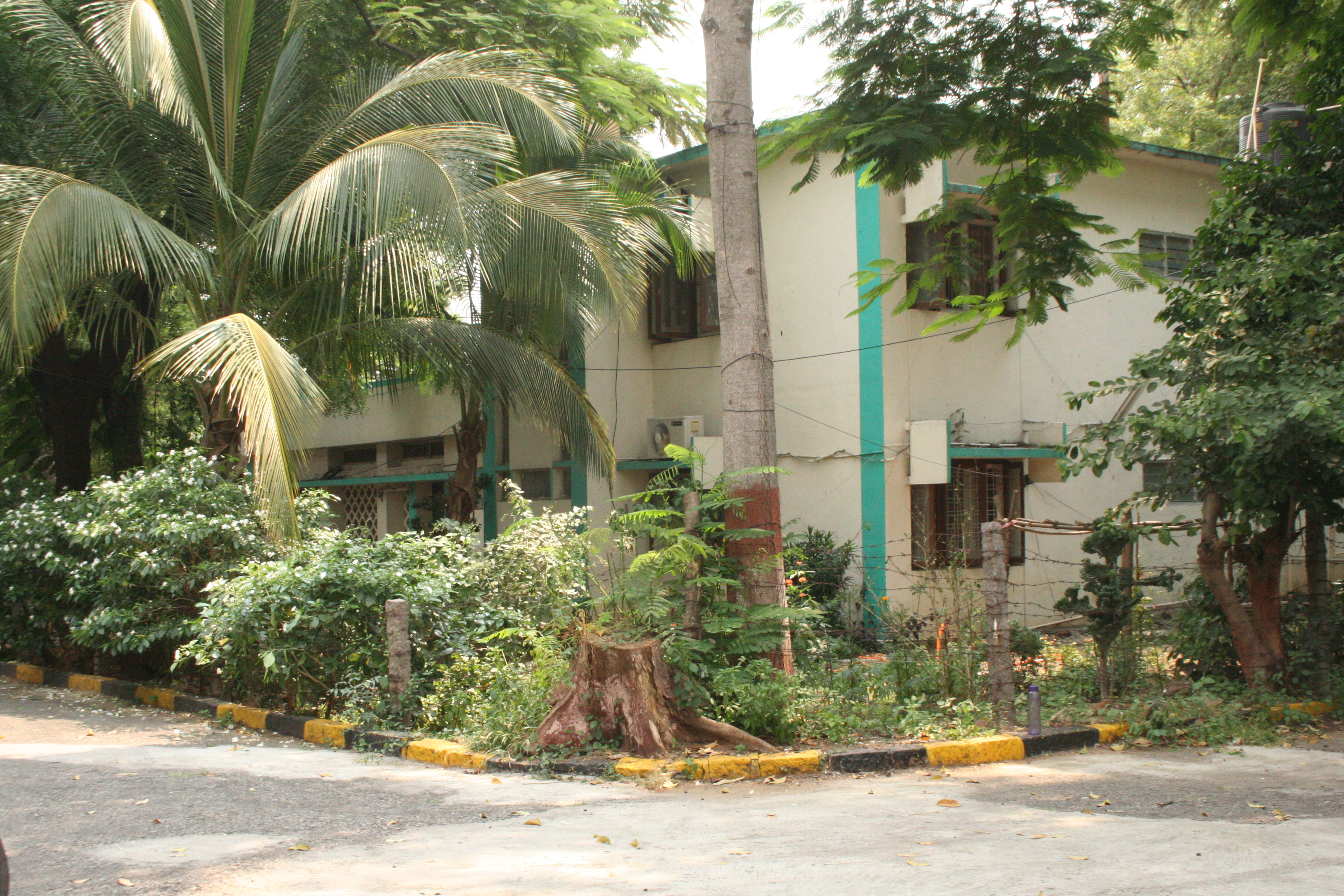 Principal's house